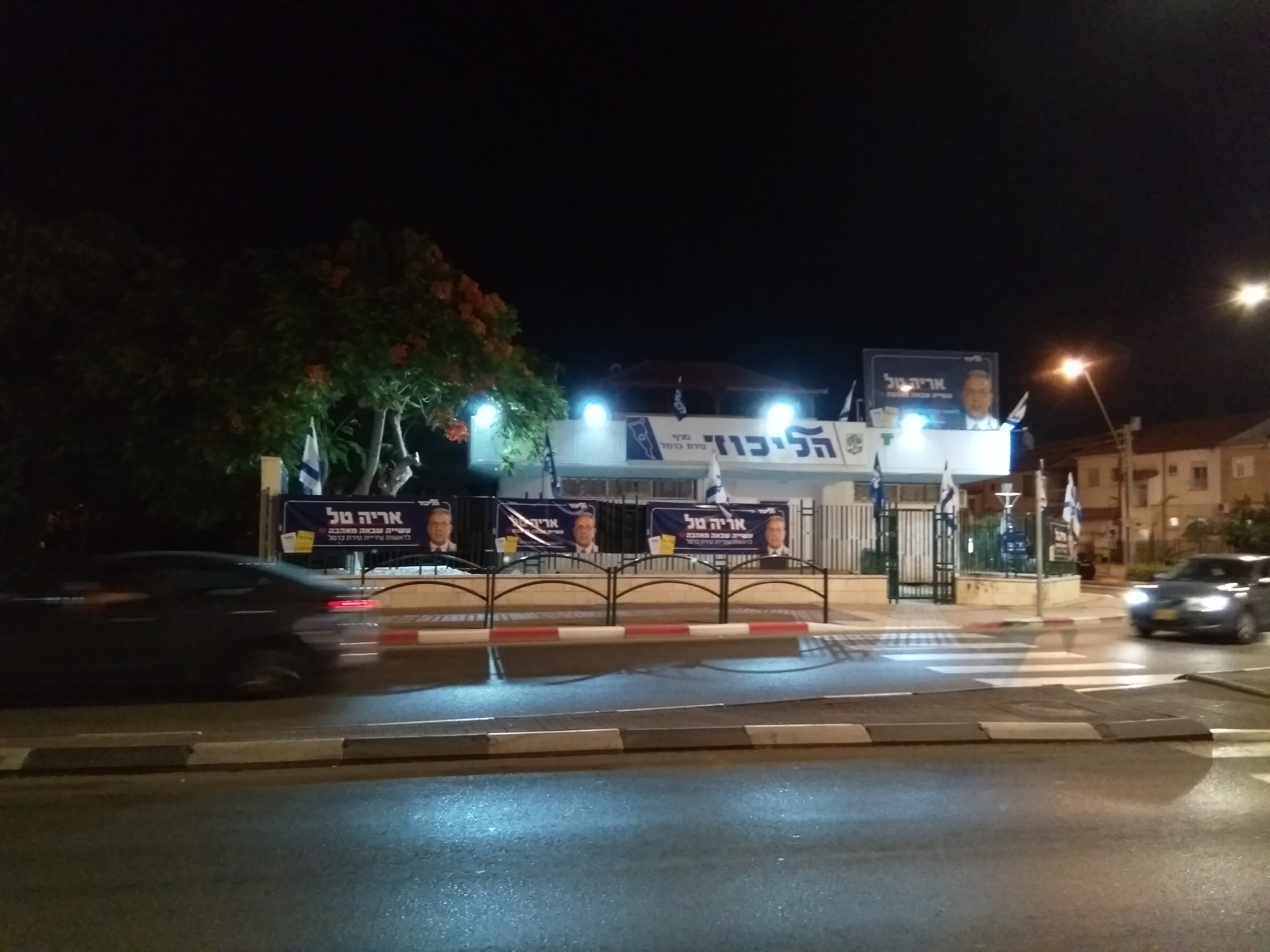 Likud headquarters in Tirat Carmel during 2018 municipal election with posters supporting mayoral candidate Arye Tal